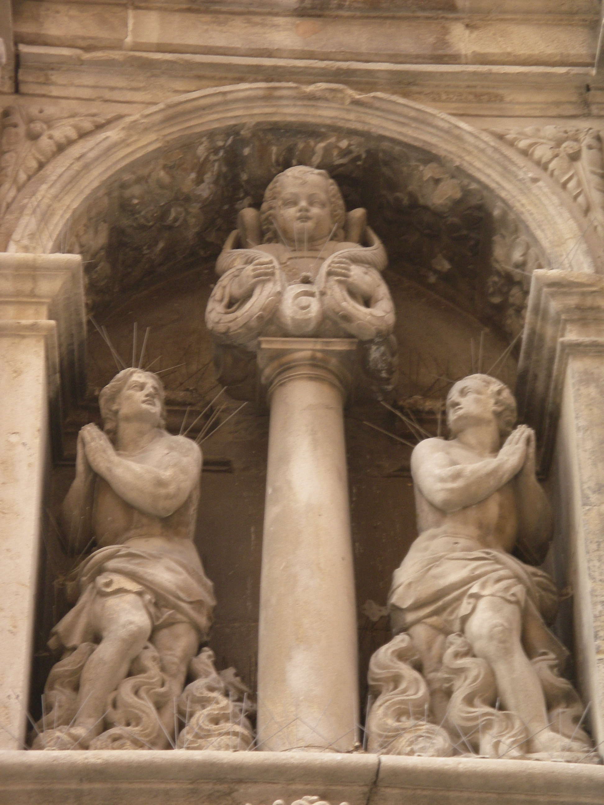 Saints Lucian and Martian, scultpture at Vic, Ajuntament.